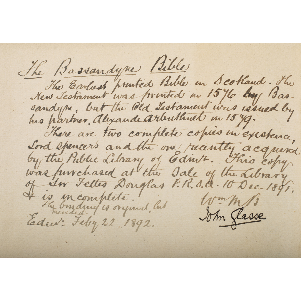 The inscription on the endpaper of a copy of the Bassendyne Bible owned by Reverend John Glasse of Greyfriars Kirk Edinburgh, with Glasse's signature.